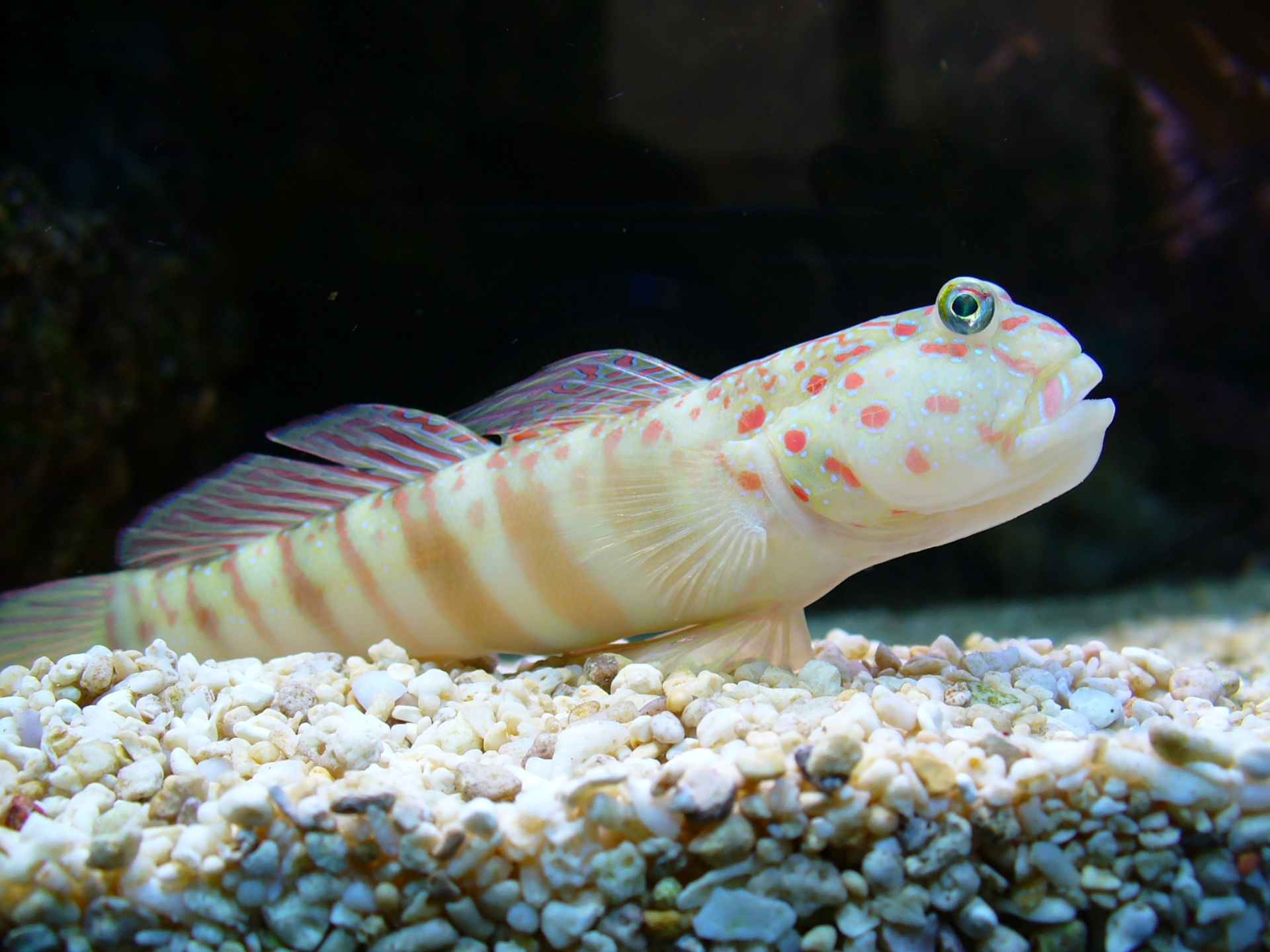 Cryptocentrus leptocephalus, Gobiidae, Pinkspotted Shrimp Goby; Staatliches Museum für Naturkunde Karlsruhe, Germany.